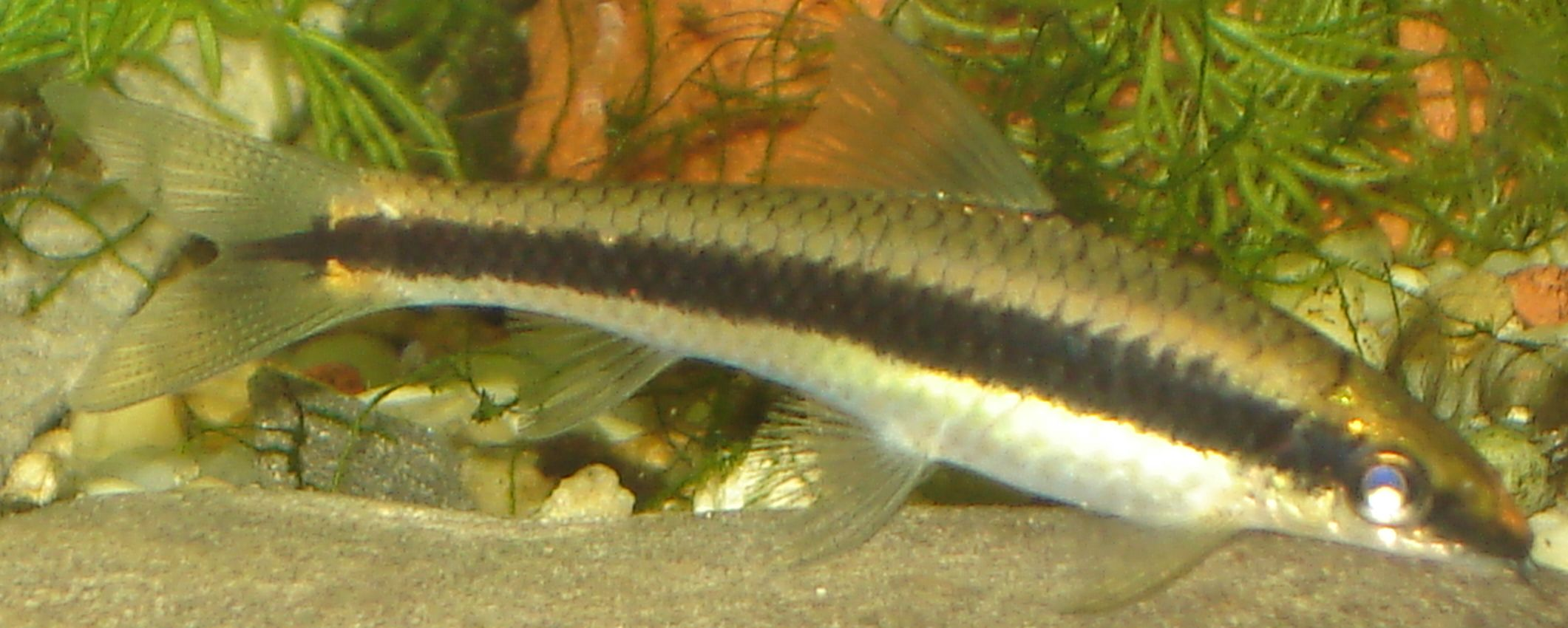 Species in Crossocheilus siamensis complex. Photo in private aqua in Poland, 2006